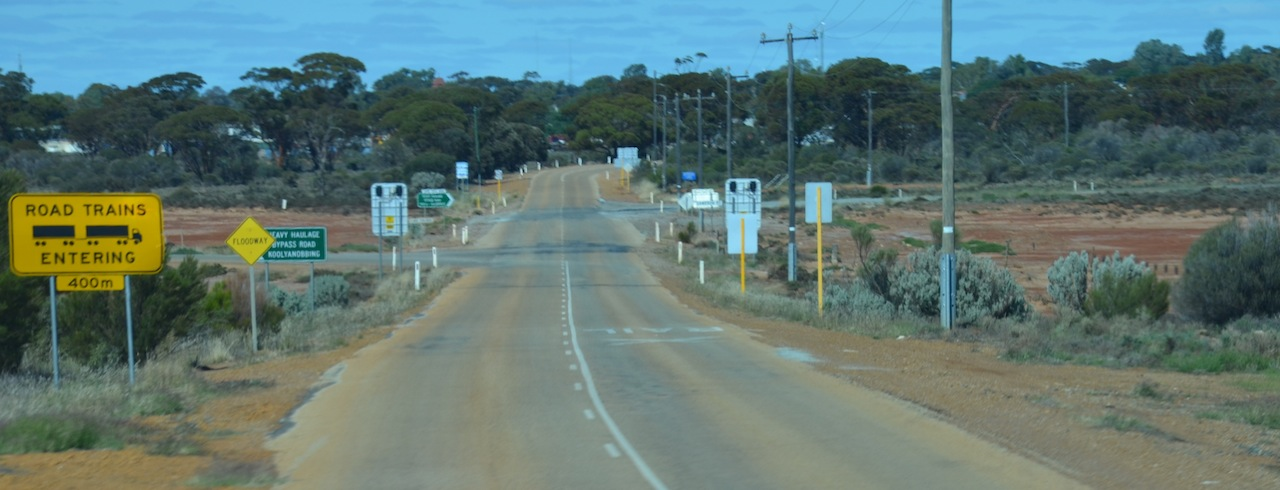 Southern Cross, Western Australia - floodway - on Great Eastern Highway - as well as the eastern side of town, seen from the Prospector, passing by April 2015